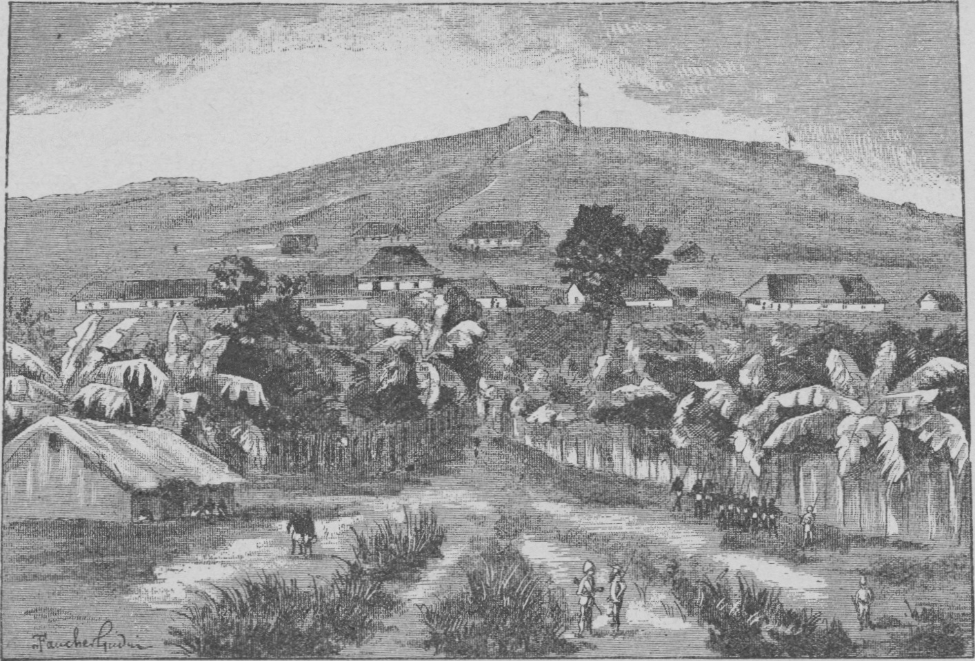 View of Leopoldville (Kinshasa) in 1885. From the book "Stanleys expedition till Emin Paschas undsättning" (1890) Author: Alphonse-Jules Wauters Translator: Oscar Heinrich Dumrath